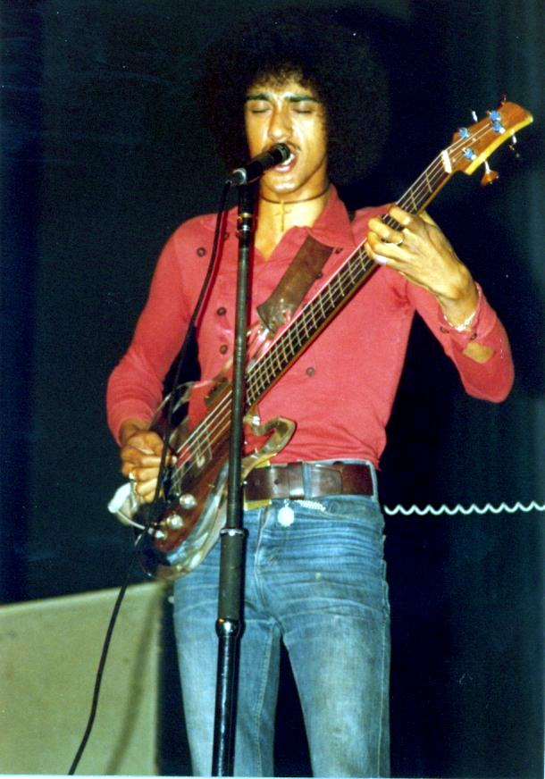 1972 Thin Lizzy's - Phil Lynott - Frankfurt - Opener for Beck,Bogert & Appice